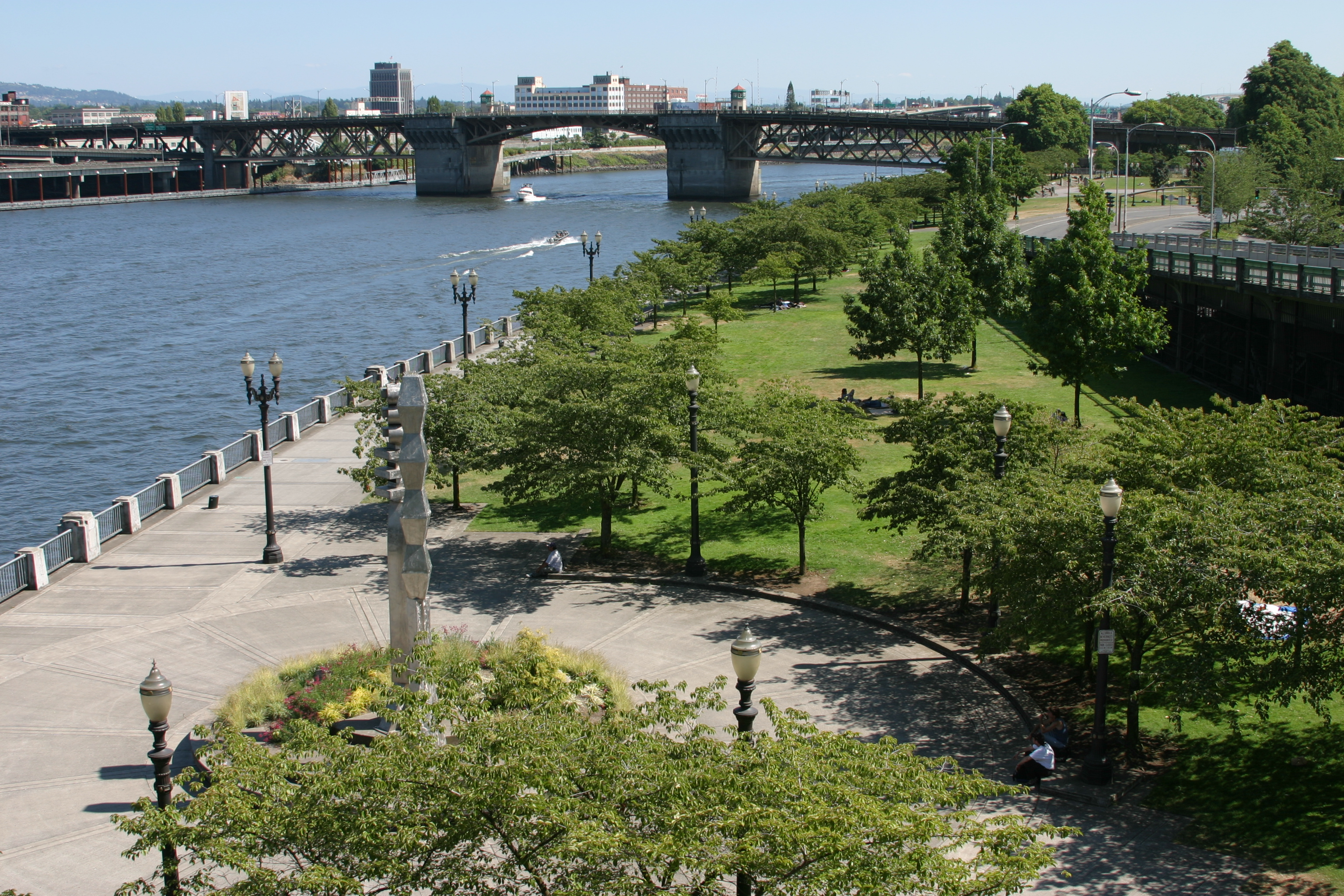 Tom McCall Waterfront Park, seen looking south from the Steel Bridge.